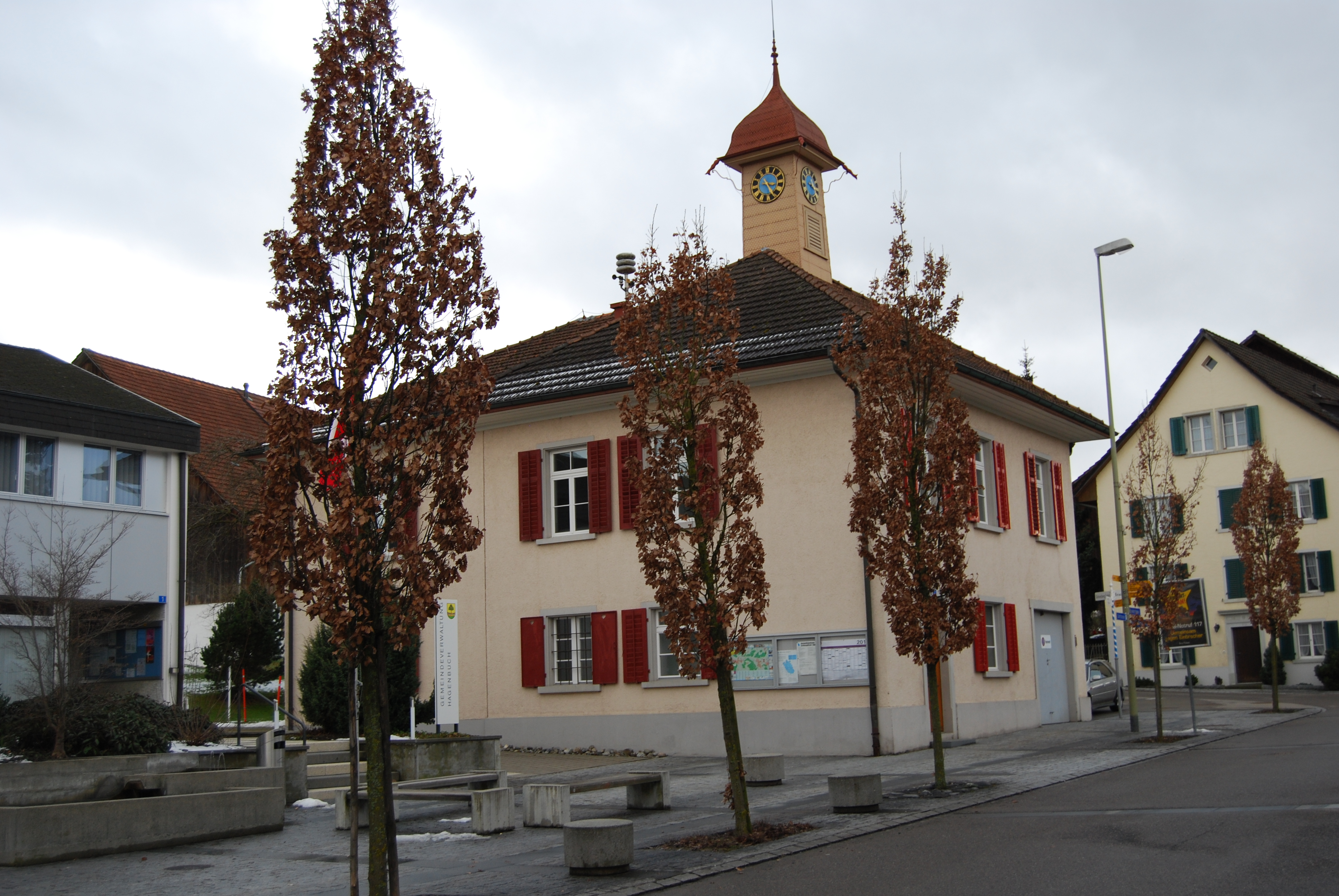 School at Hagenbuch, canton of Zürich, SwitzerlandEsperanto: Lernejo en Hagenbuch, Kantono Zuriko, Svislando